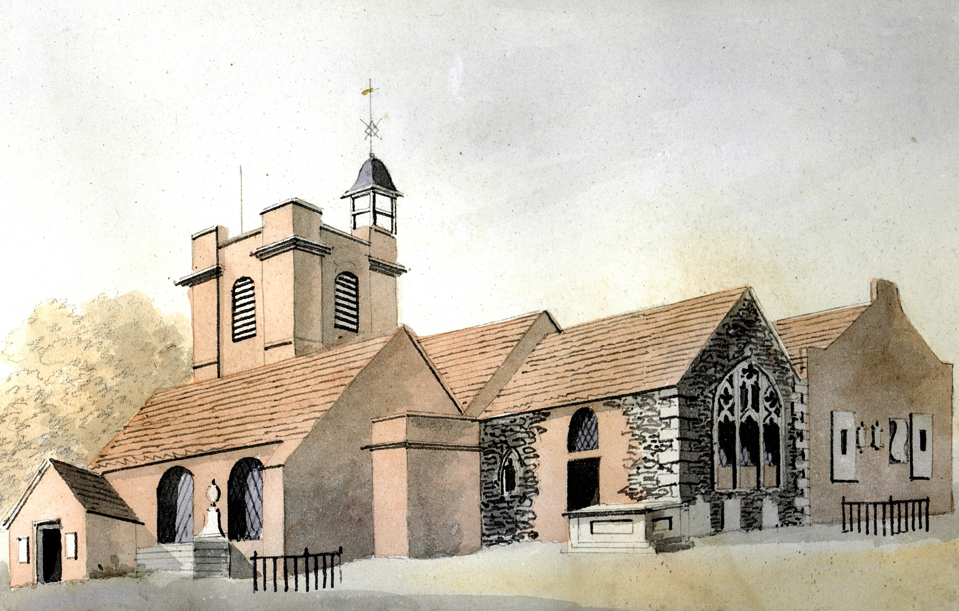 An 1810 watercolour of the former St Mary's parish church at Hampton, Middlesex, which was demolished in 1830